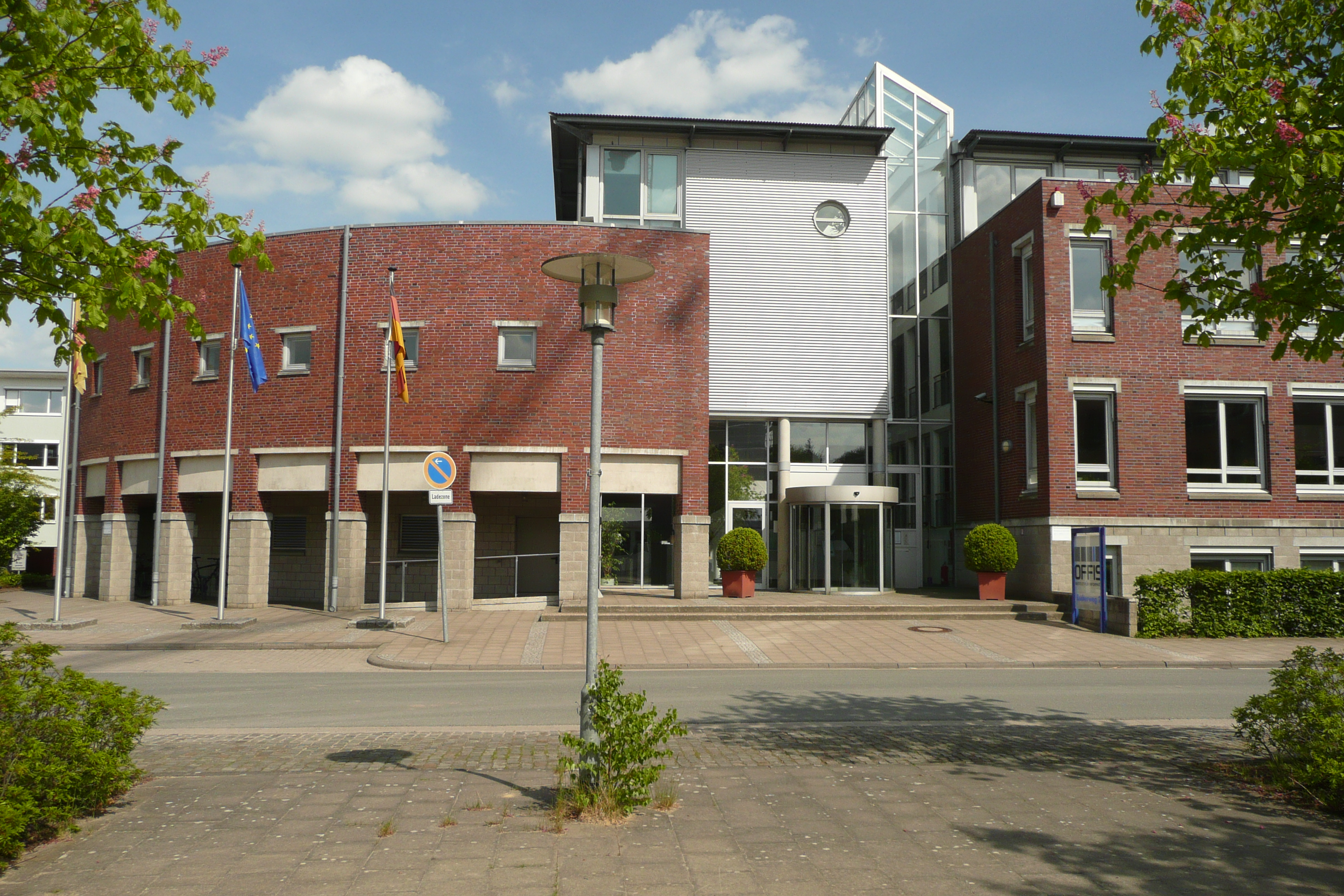 Building of the OFFIS, an institute at the Carl von Ossietzky university